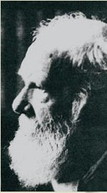 photograph of Alfred Tepe taken arounf 1919